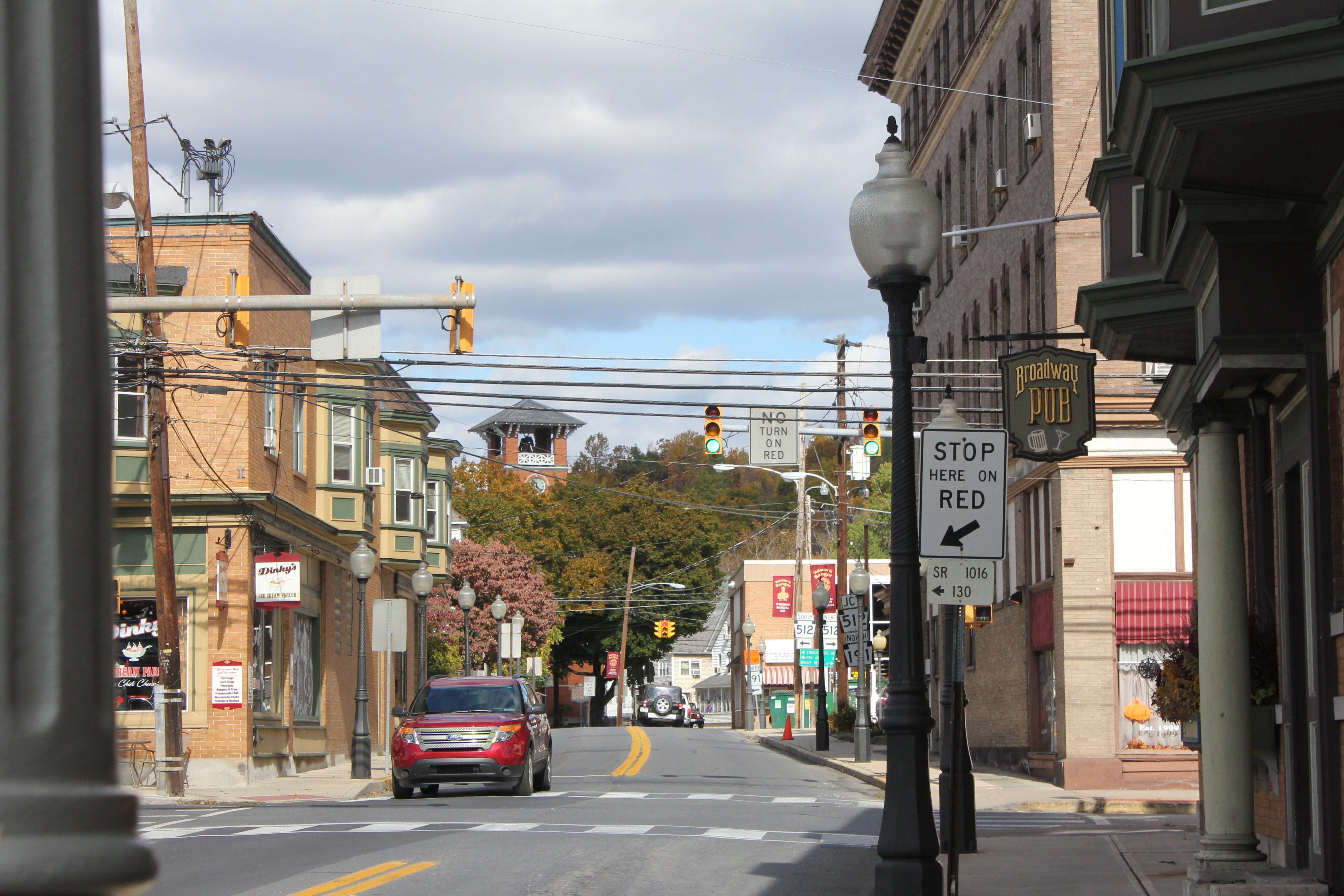 1st and Broad, Bangor PA